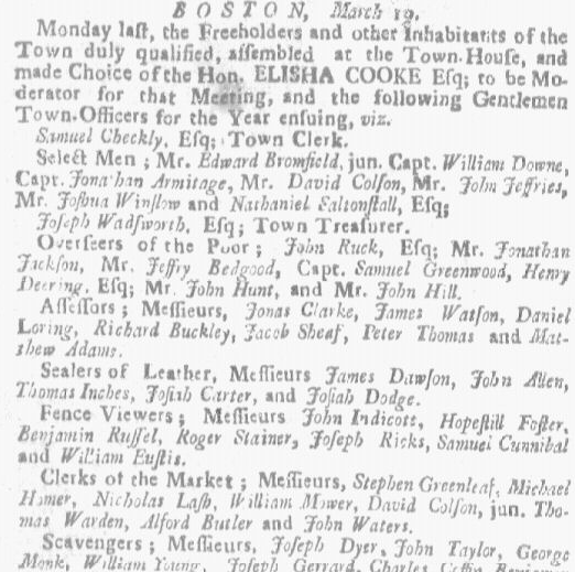 Newspaper item related to selectmen and other representatives of Boston, Massachusetts